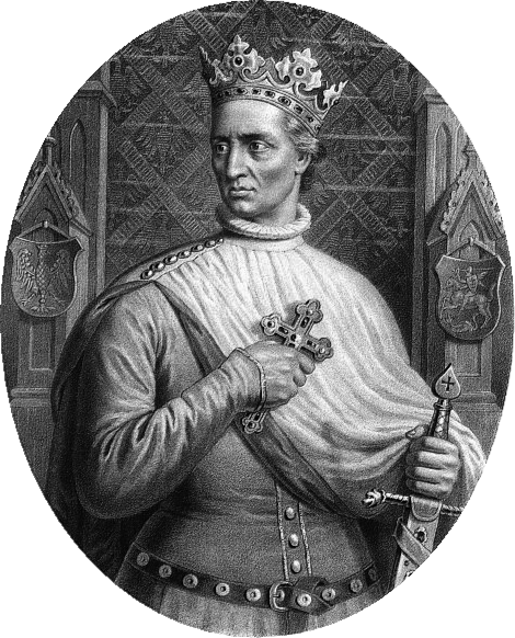 Wladislaus II of Poland